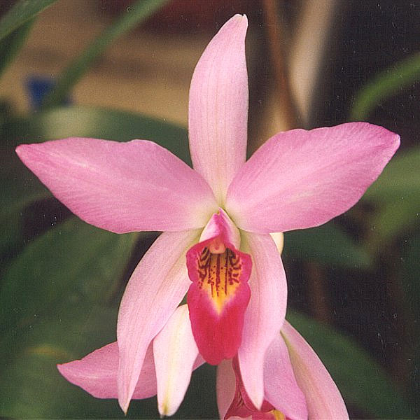 Laelia anceps (an orchid) Downloaded from : en: Credits : Please help yourself to the photos on our pages, they are freely available. Larsen Twins Orchids